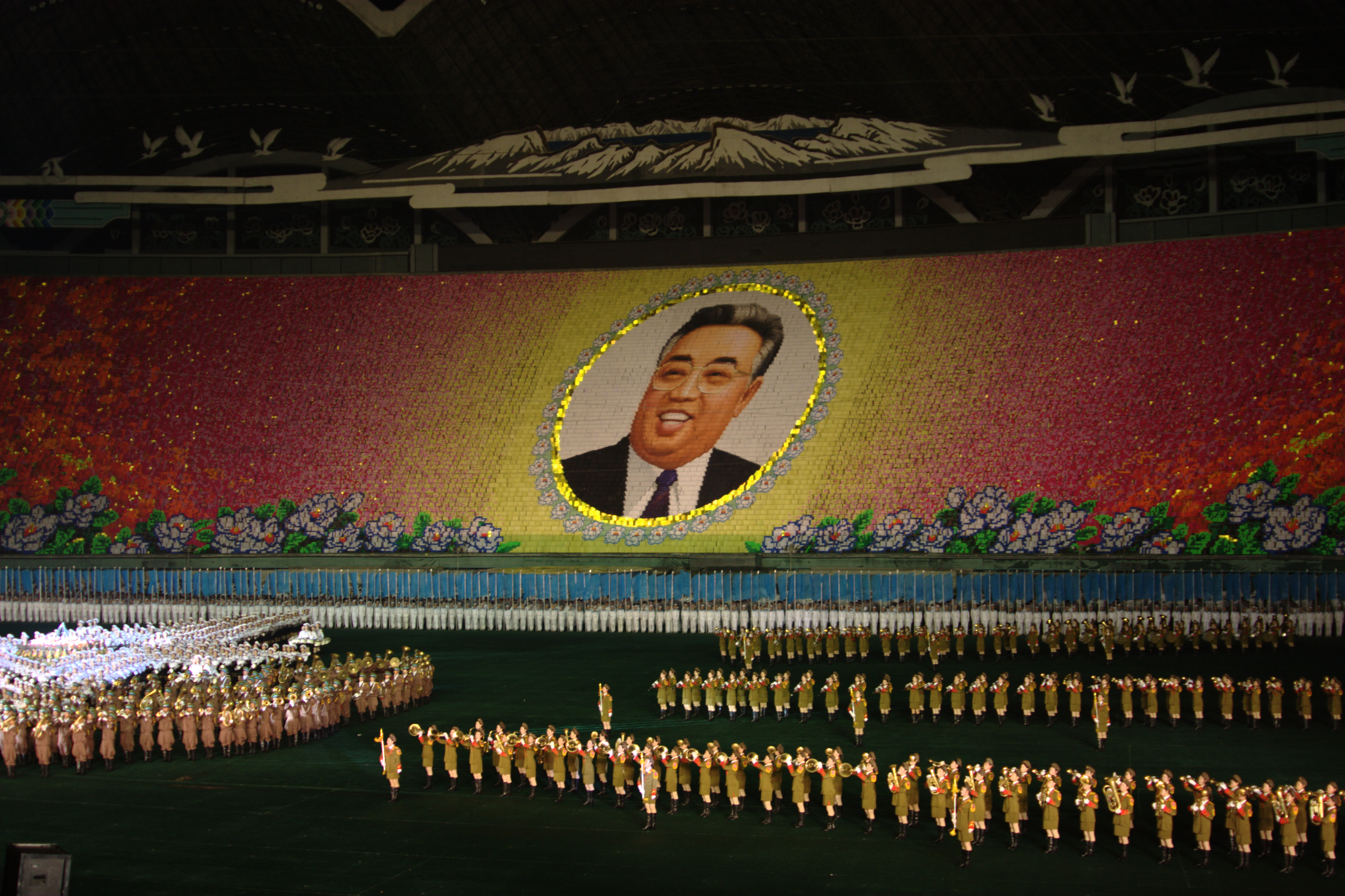 From a mass game in North Korea, 2007.